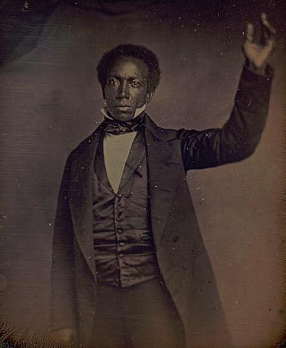 Edward James Roye